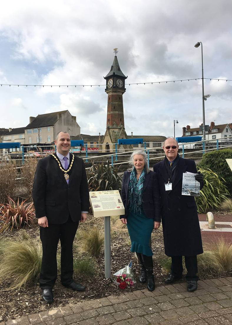 Jesse Handsley Memorial unveiling March 2016 Mayor of Skegness, Councillor Carl Macey, Jane Handsley & Courtney Finn of Grantham Civic Society